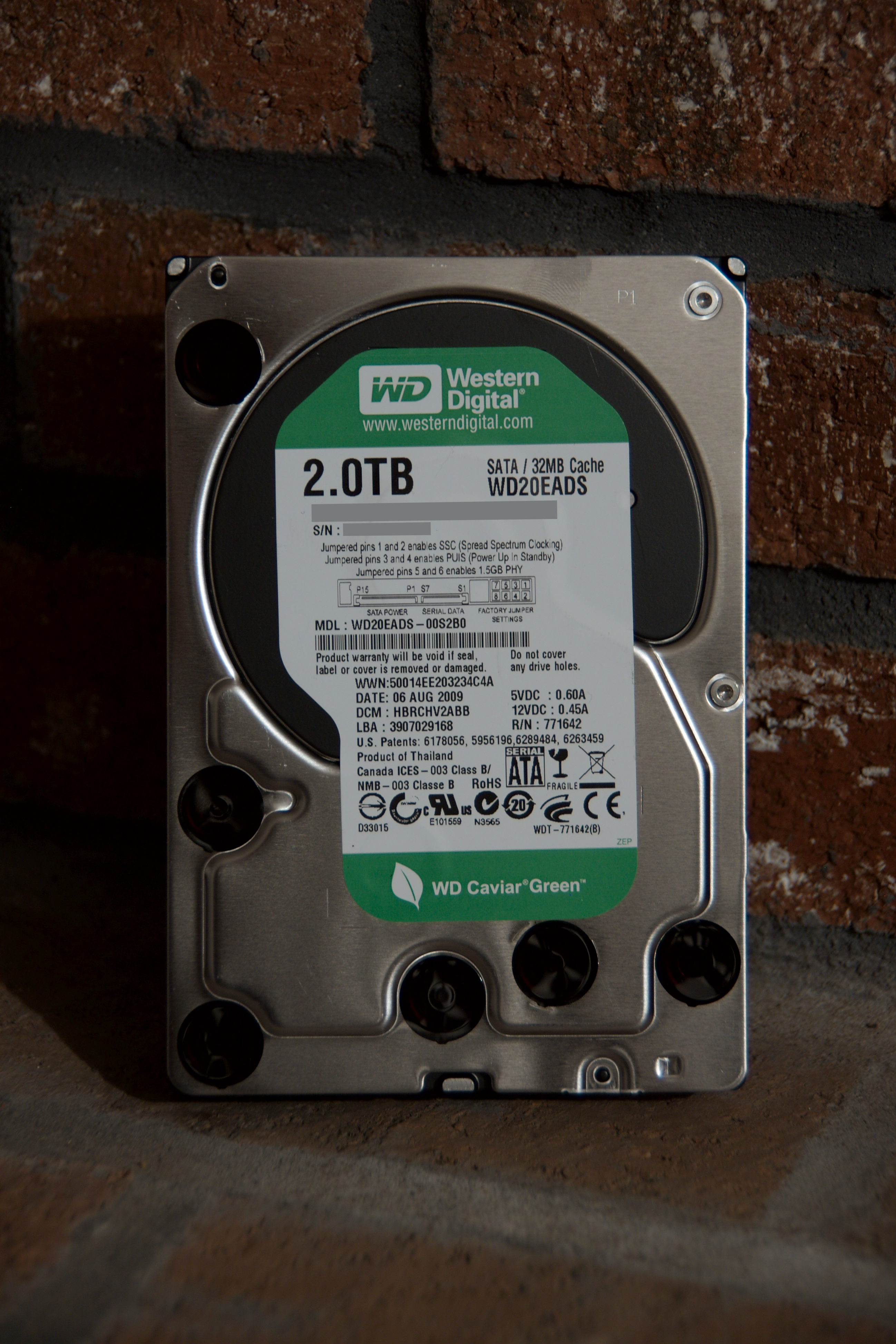 Western Digital WD20EADS-00S2B0 two terabyte hard disk drive.